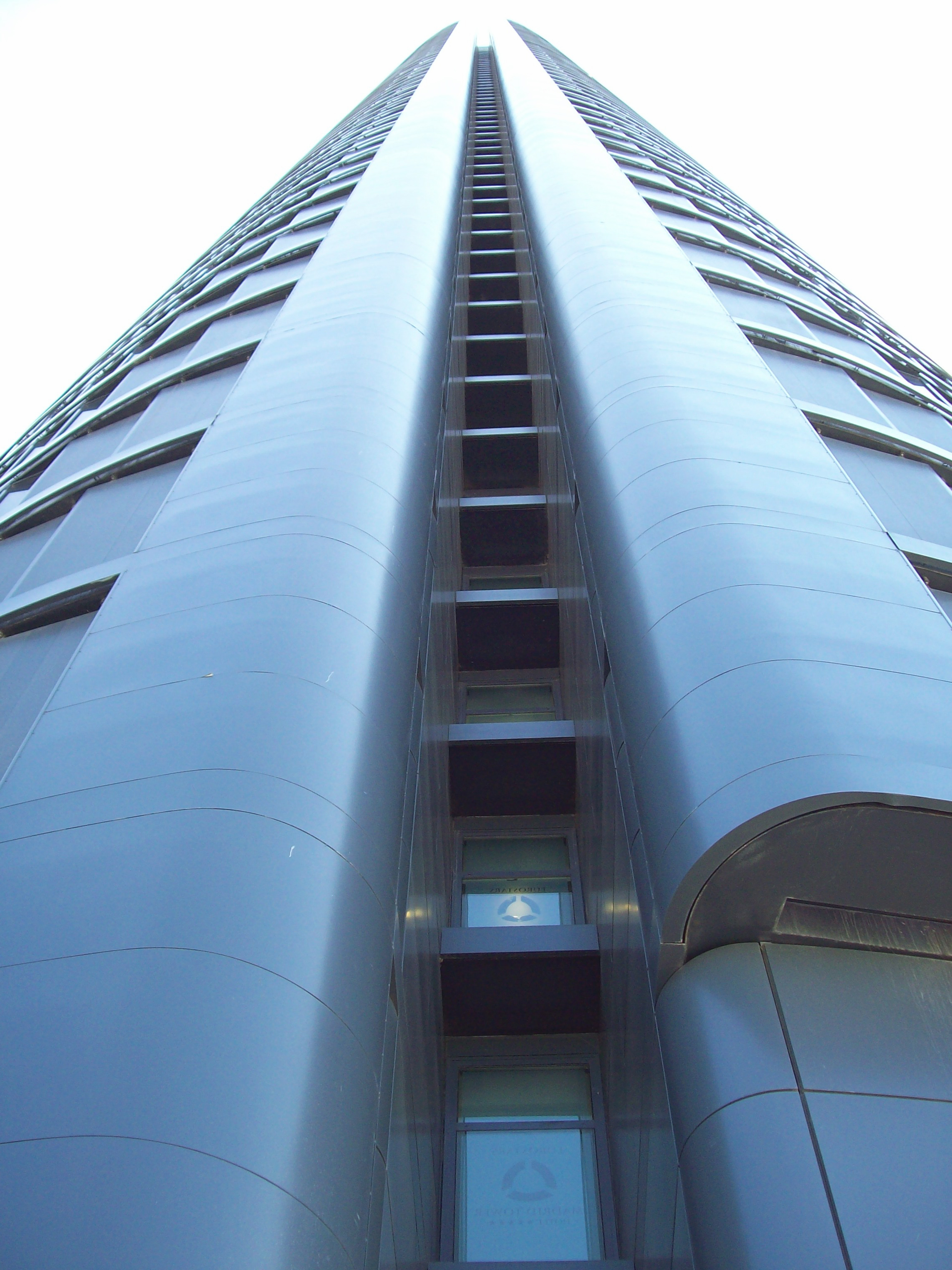 Torre Sacyr Vallehermoso, in Cuatro Torres Business Area (Madrid, Spain).